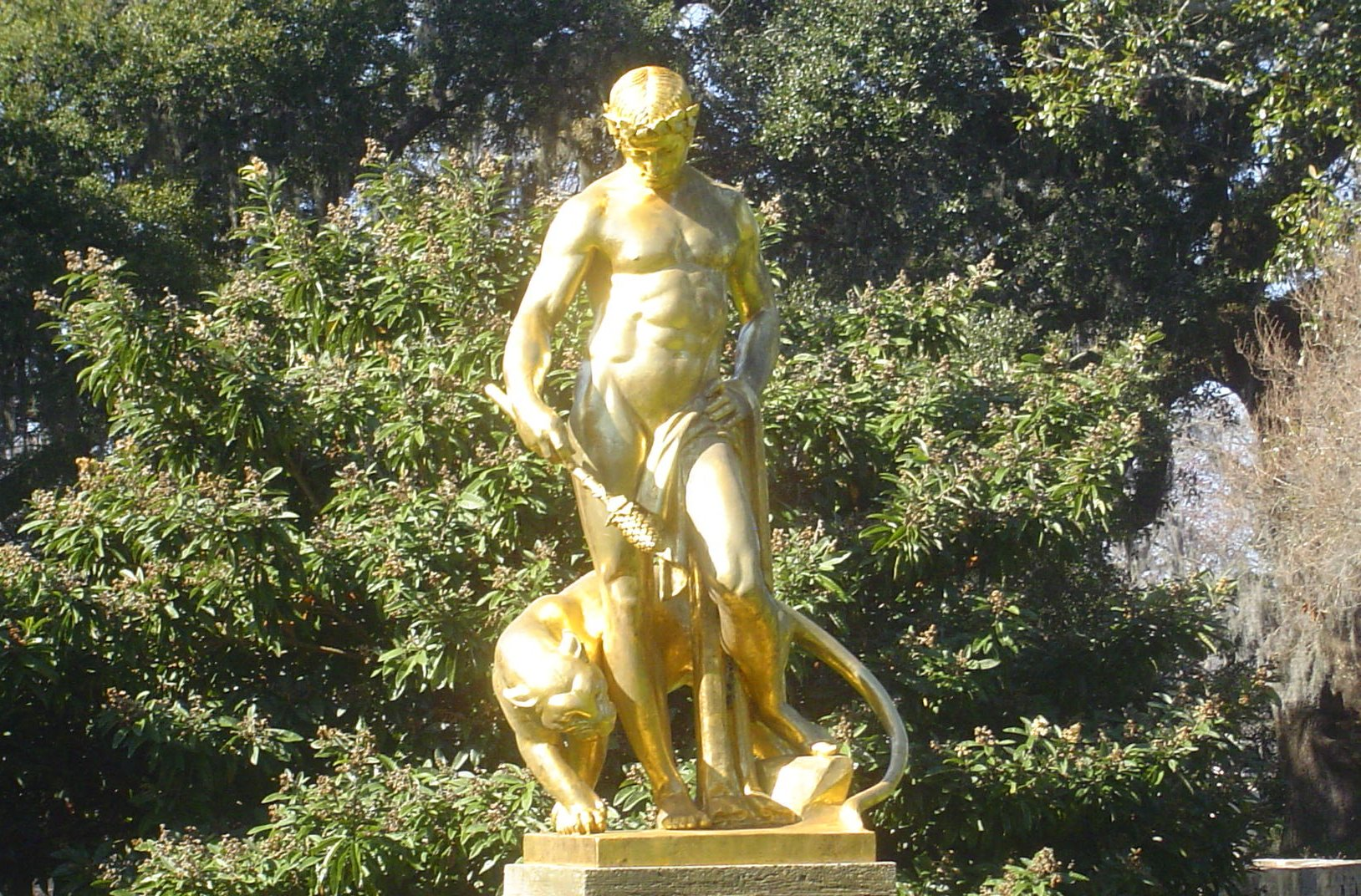 Brookgreen Gardens - sculpture garden. Dionysus, by Edward Francis McCartan[1]